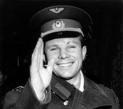 Yuri Gagarin saying hello to the press during a visit to Malmö, Sweden 1964.